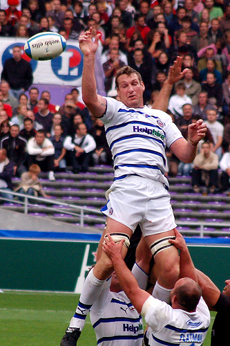 Justin Harrison Bath Rugby v Stade toulousain - 12 October 08 - Heineken Cup